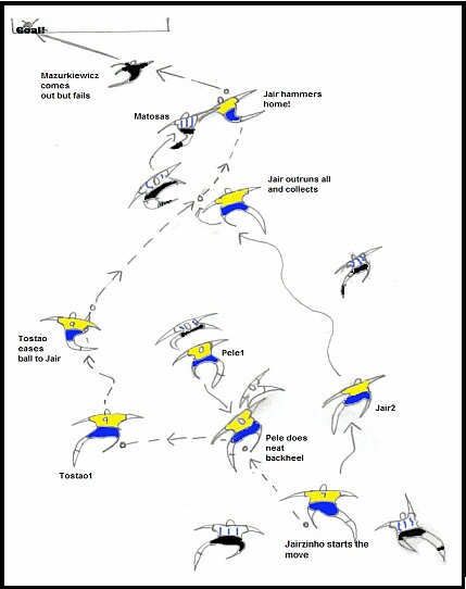 Jairzinho scores against Uruguay- World CUp 1970- illustrating the 3-man move. Original diagram